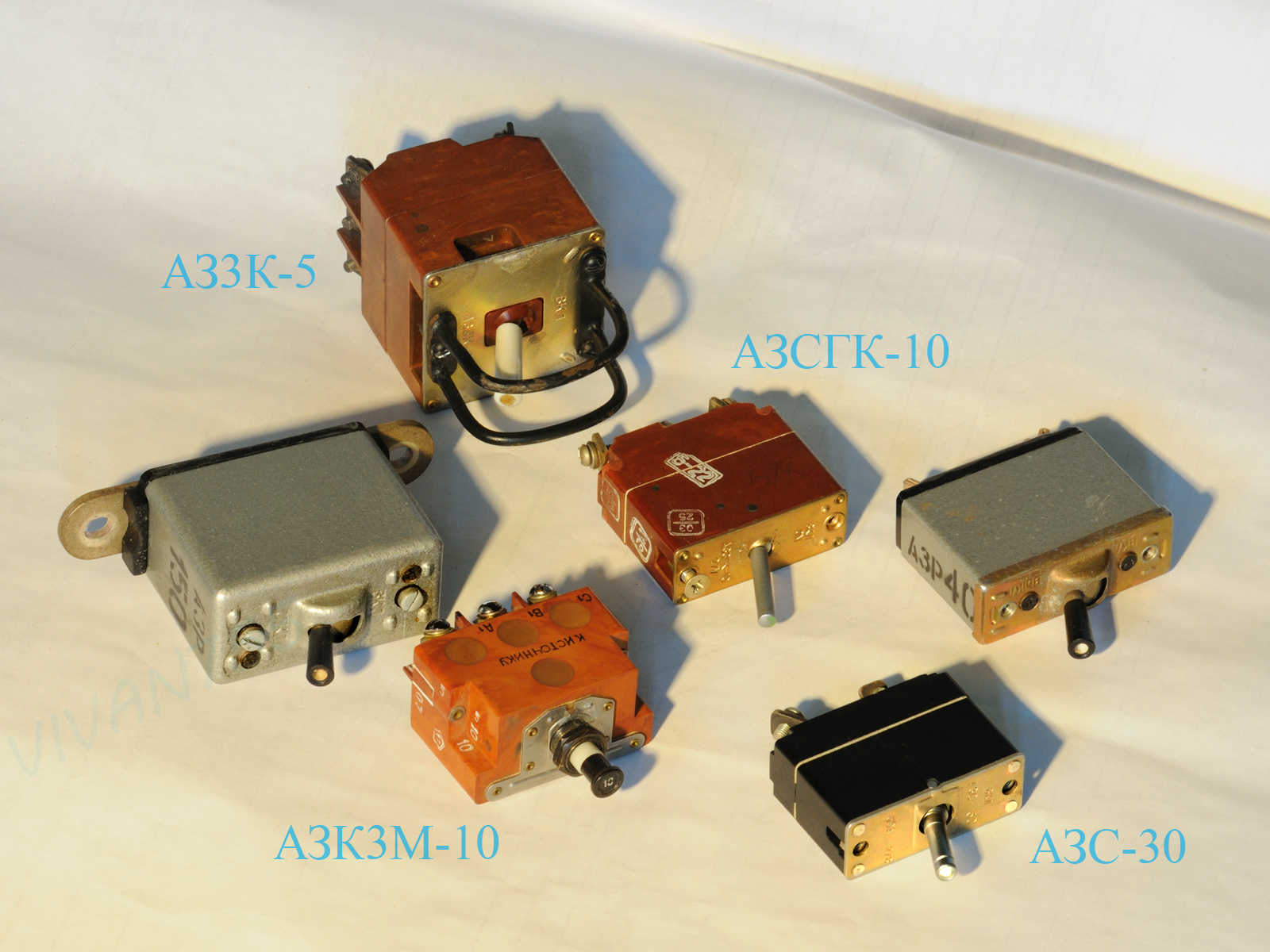 Russian aviation circuit breakers AS3K-5, AZR-150. AZSGK-10. AZR-40. AZK3M-10, AZS-30